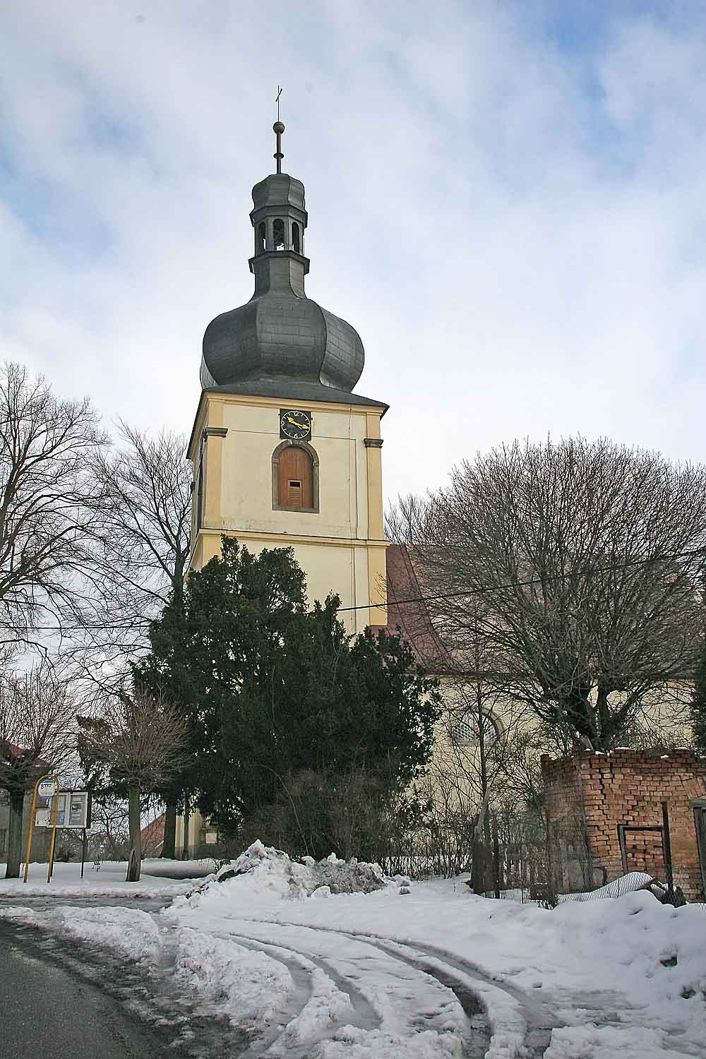 Church of Saint George in village Hnevčeves, district Hradec Králové, Czech Republic Autor: Prazak Date: 20. 2. 2006